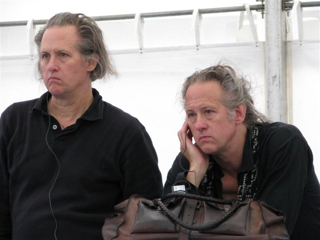 Brothers Quay - Stephen and Timothy Quay (born June 17, 1947 in Norristown, Pennsylvania) are American identical twin brothers better known as the Brothers Quay or Quay Brothers. They are influential stop-motion animators